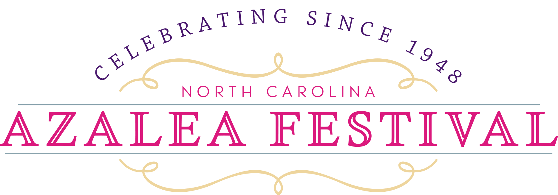 Logo